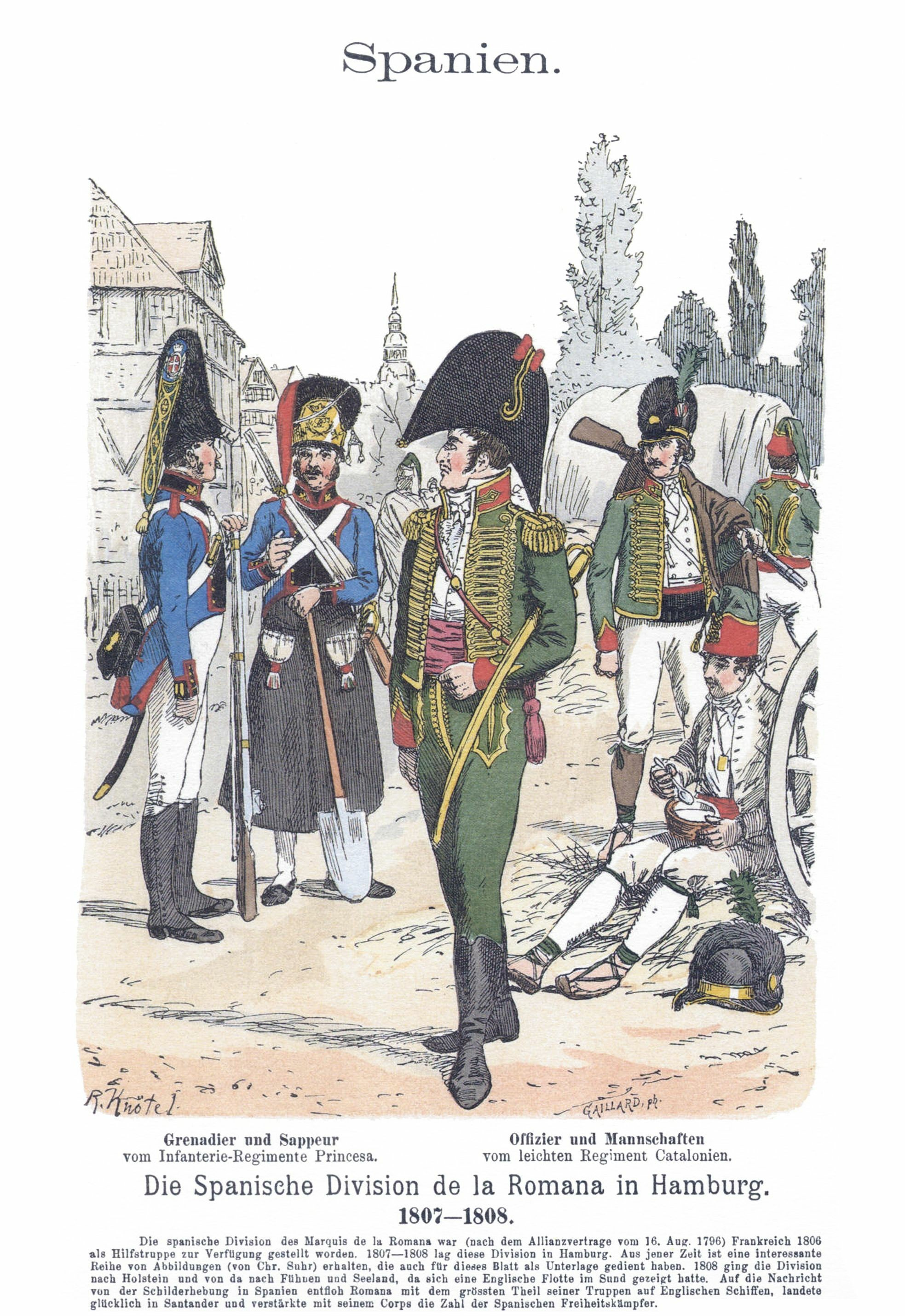 Spain. The Spanish Division de la Romana in Hamburg. 1806-1808